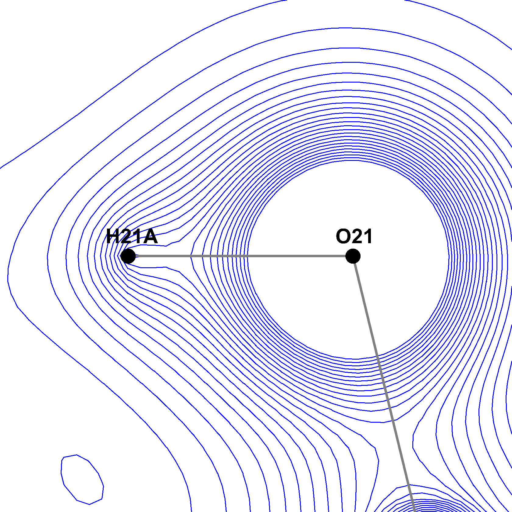 OH bond charge density resulting from Multipole Model refinement of doxycycline molecule, based of own data.